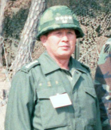 General Lee Sang-hoon, CFC Deputy Commander.